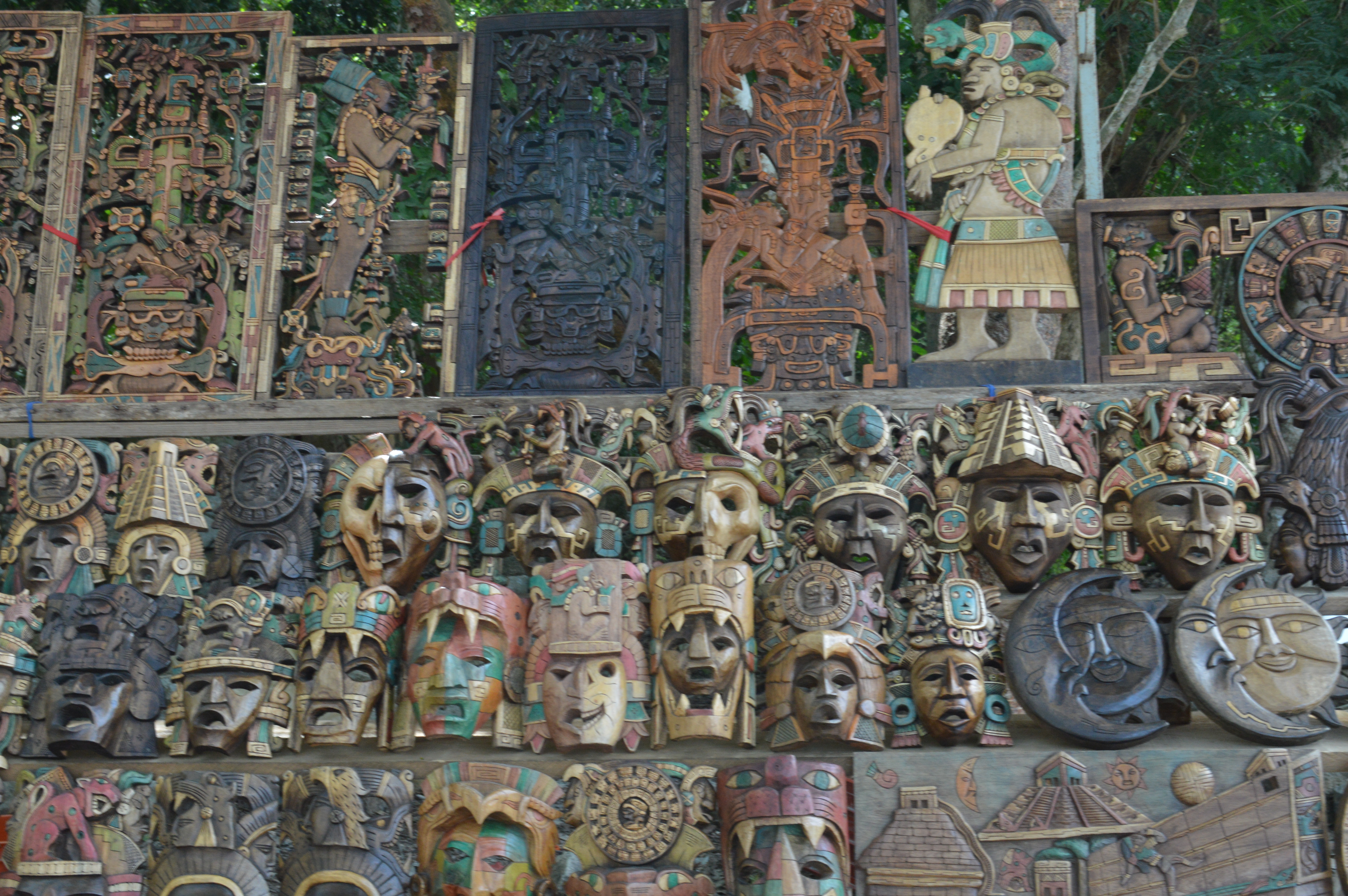 Hand carved wood items for sale at Chichen Itza, Yucatan, Mexico